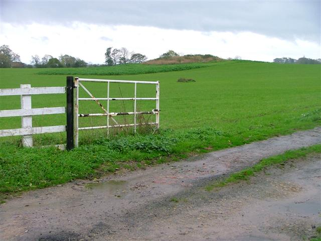 Tumulus at Carlbury. It has been suggested that this is the site of a timber castle